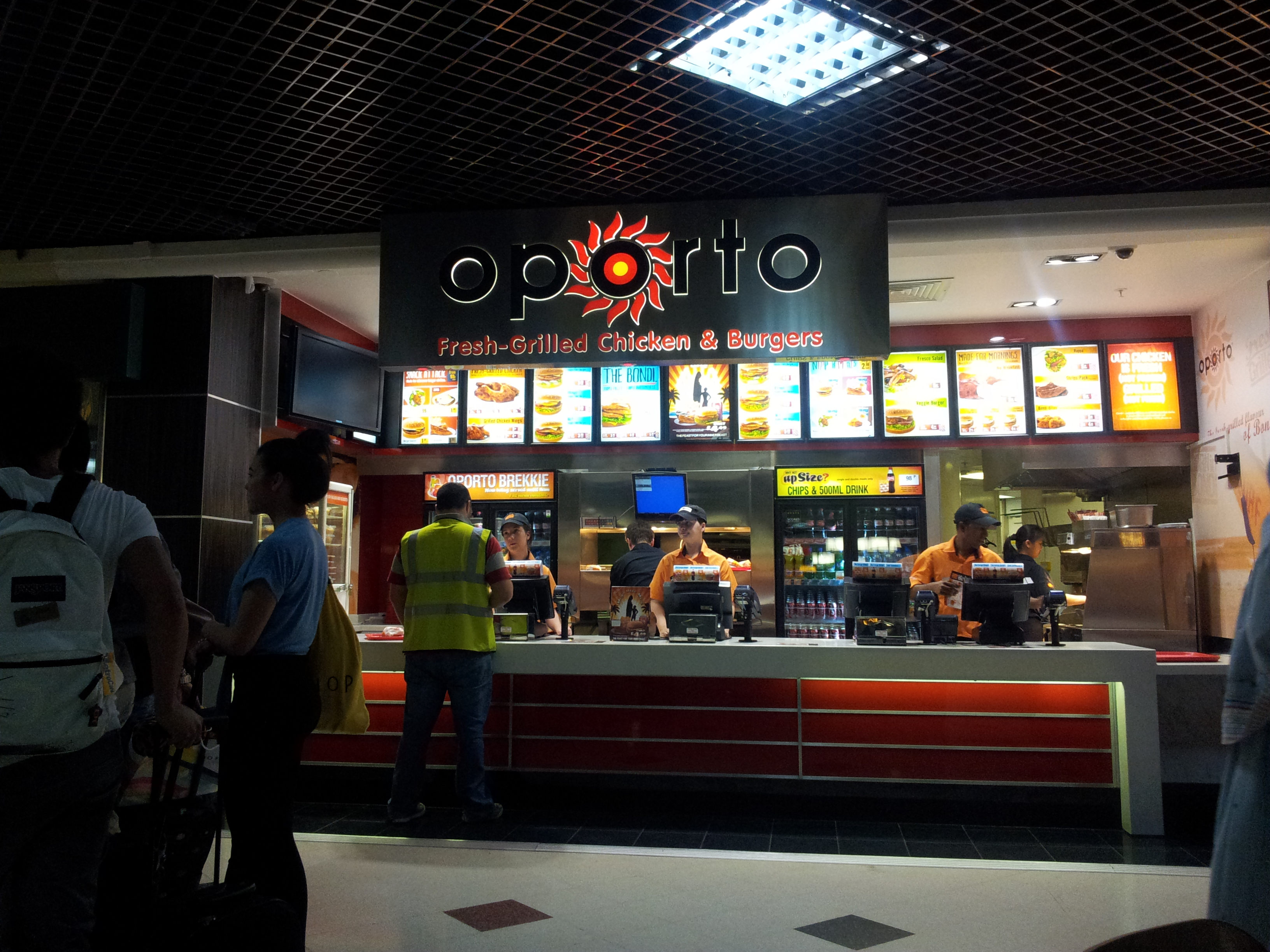 The Oporto outlet in Victoria Place, above Victoria station in London